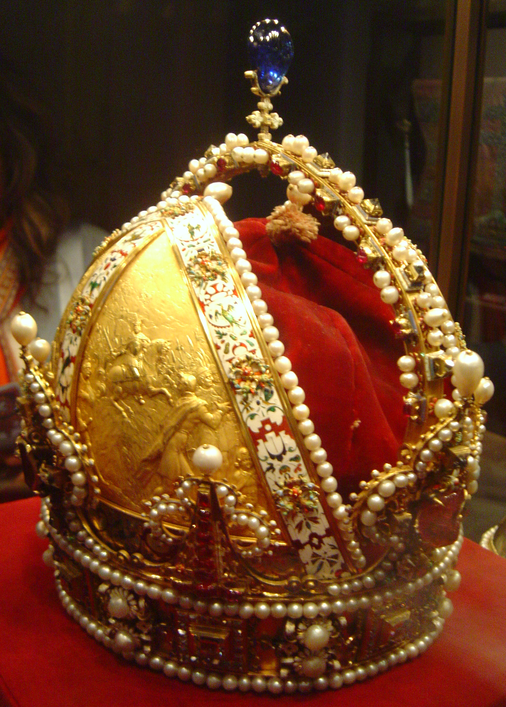 The Austrian imperial crown (originally the crown of Rudolph II)